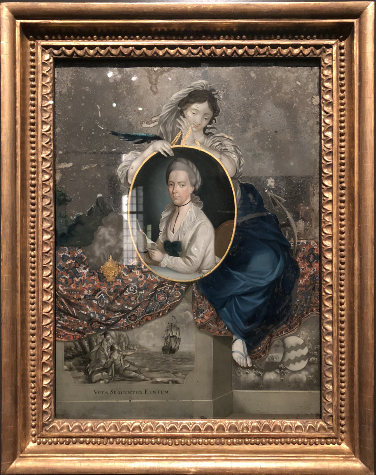 When Andreas Everarud van Braam Houckgeest looked in this mirror in Canton (Guangzhou), he was briefly reunited with his wife, Catharina, who had stayed behind in the Netherlands. The two women at the lower left mourn a Dutch ship setting sail, while the anchor at the right symbolises hope. The inscription translates as: 'Our good wishes accompany he who departs.'